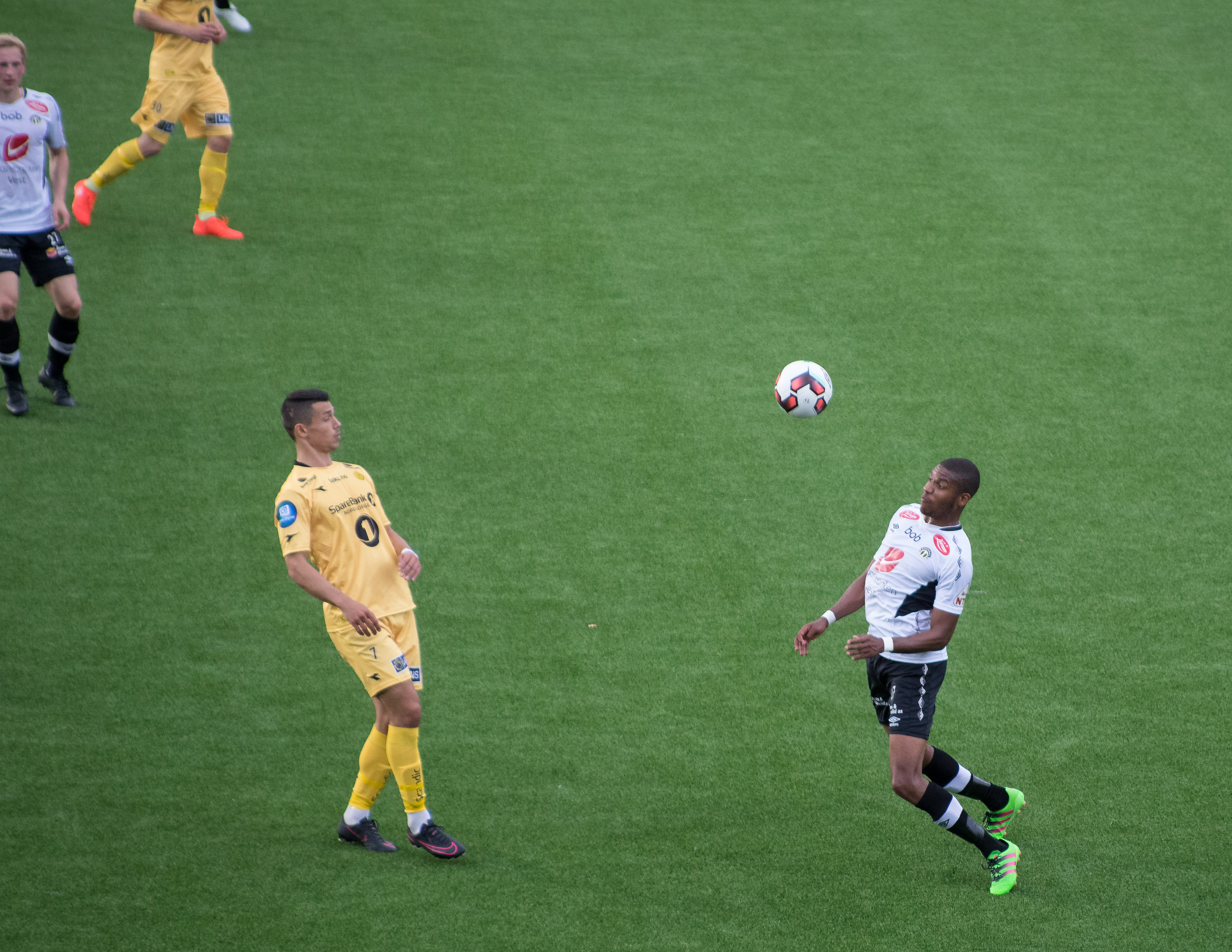 Fitim Azemi and Christophe Psyché.